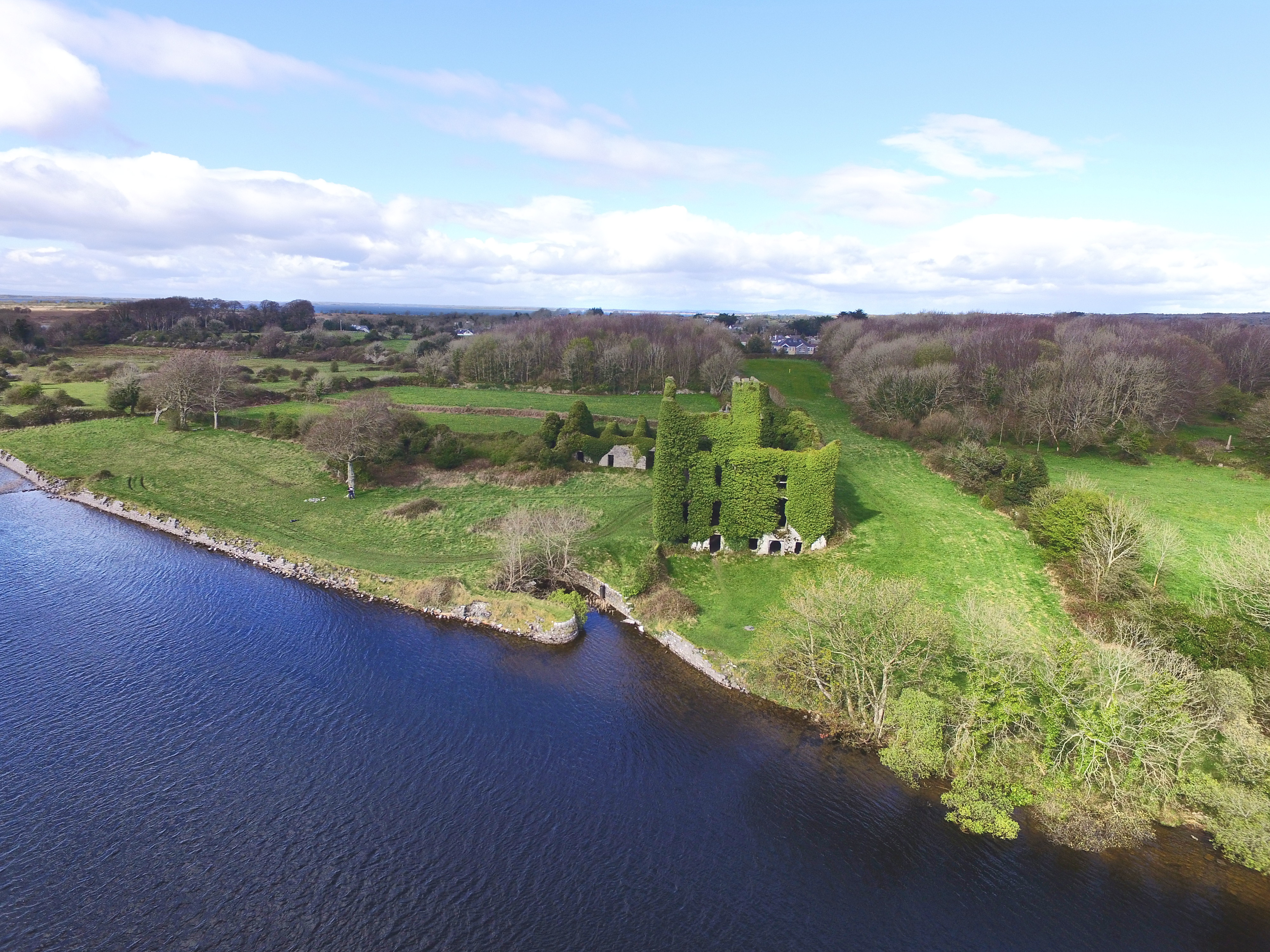 The beautiful menlo castle on the banks of the river